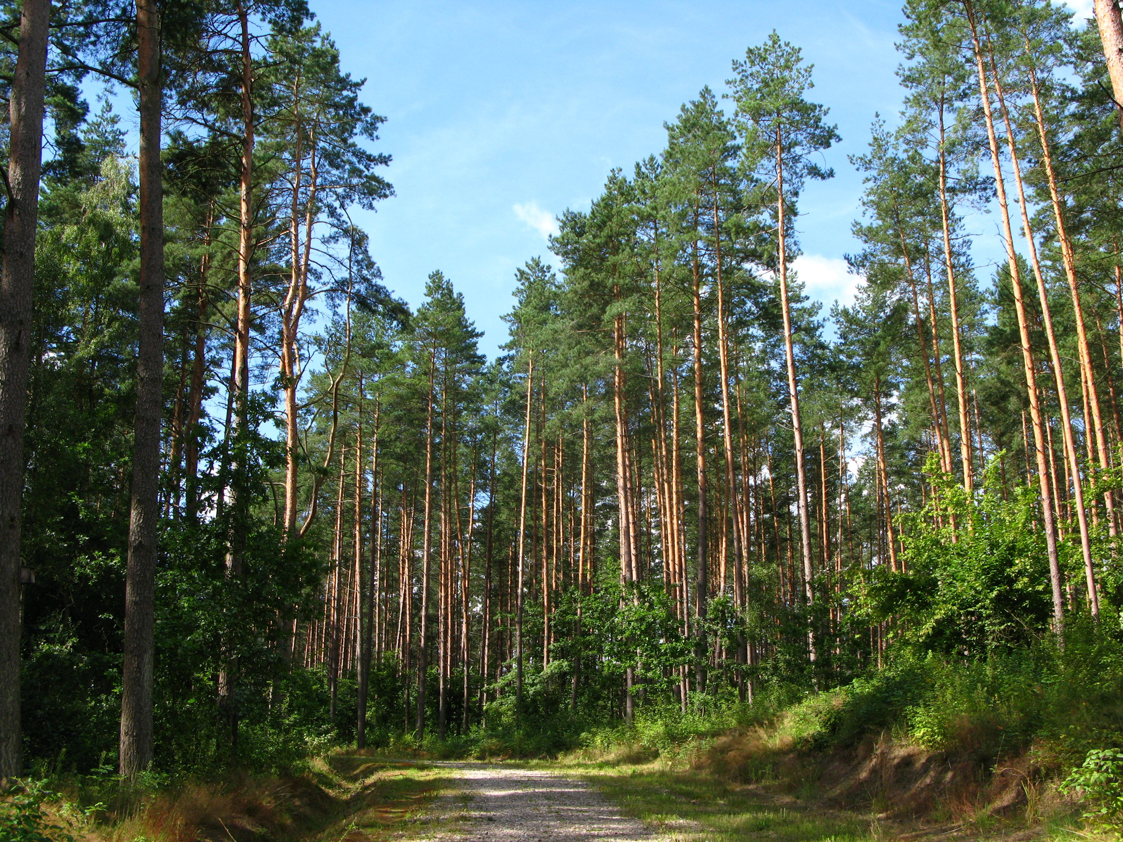 Pinus sylvestris forest near Gietrzwałd, Poland